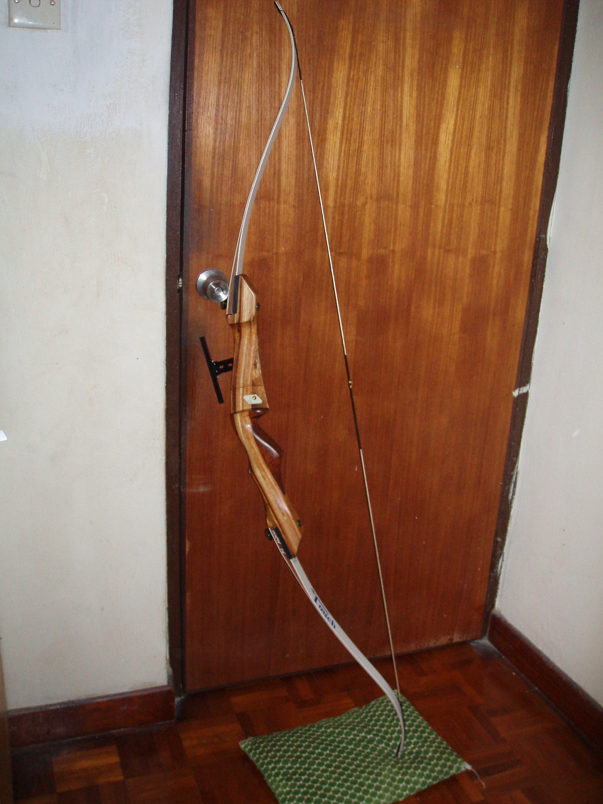 "modern" recurve bow